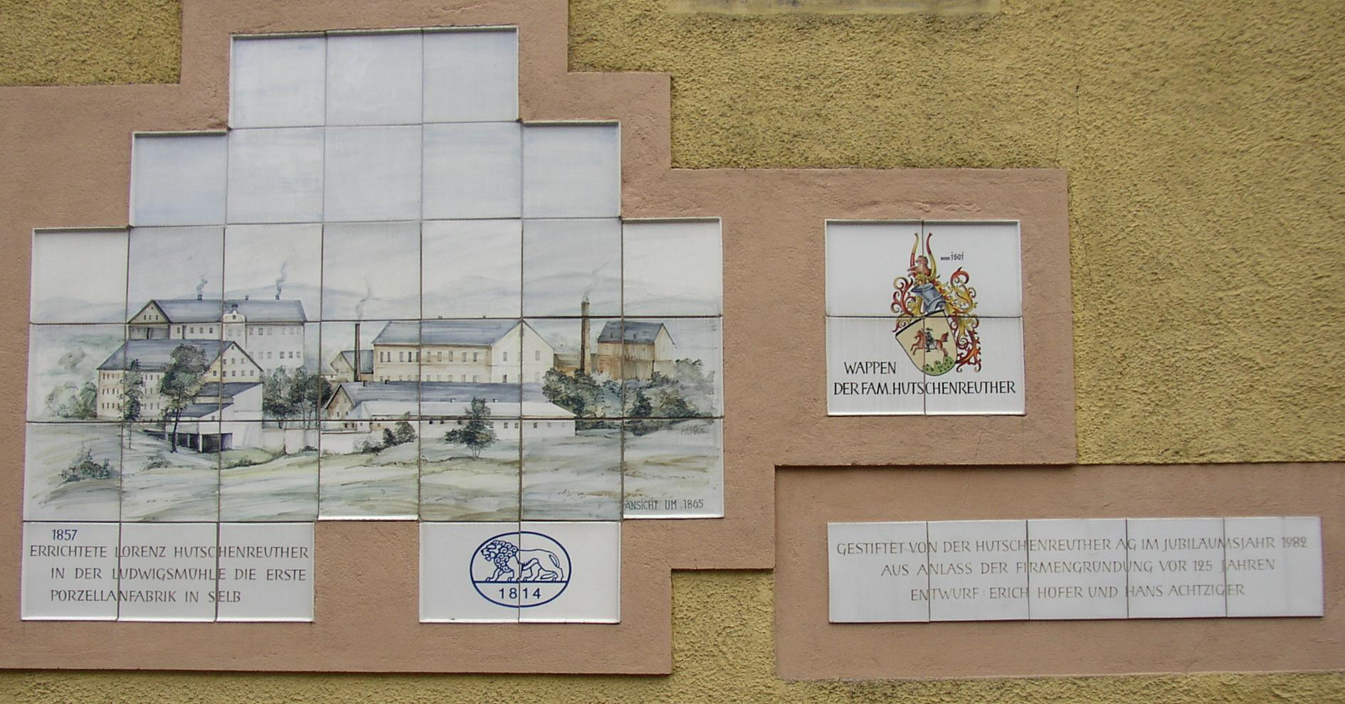 Town history on porcelain in Selb in Bavaria, Germany